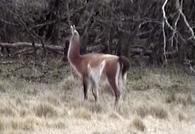 Guanacos (Lama guanicoe guanicoe) in the main island of Tierra del Fuego, Tierra del Fuego Province, Argentina.